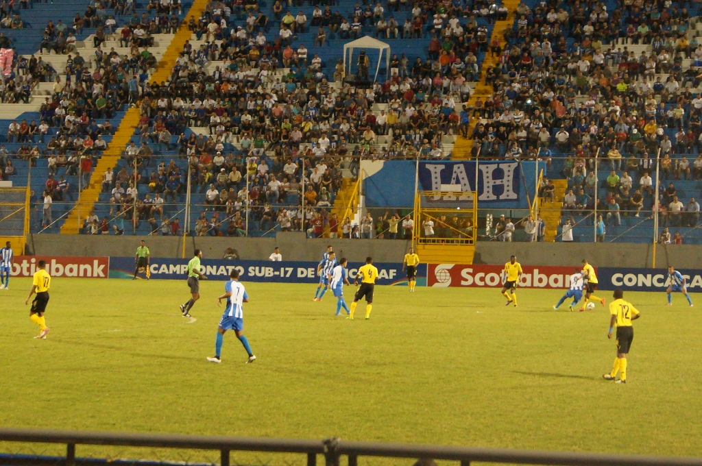 Game at Morazan Stadium in San Pedro Sula